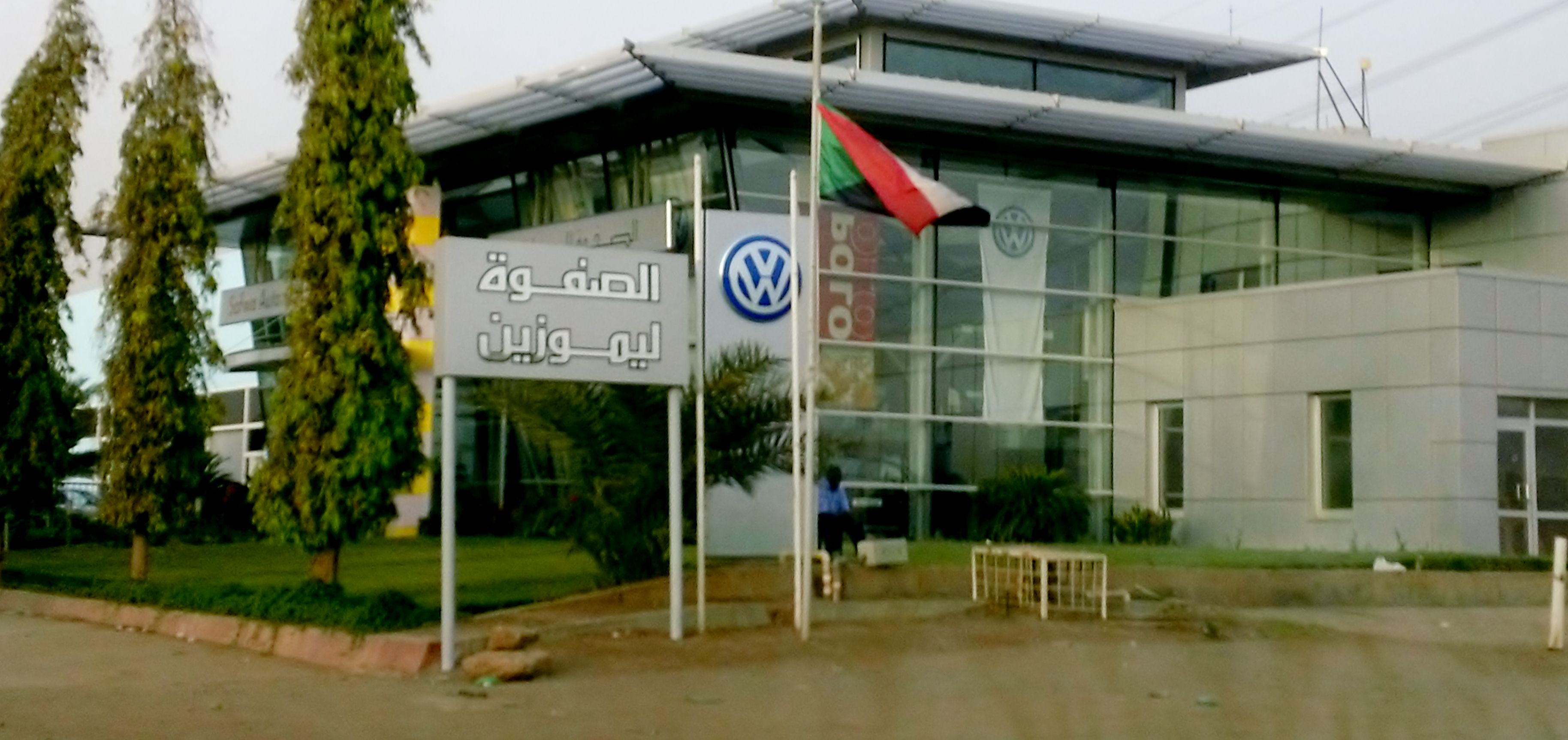 حي كافوري – خرطوم بحري -السودان